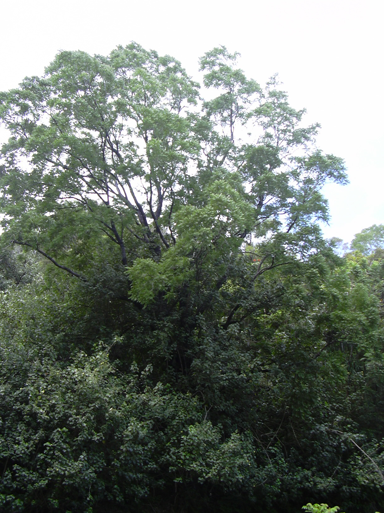 Cedrela odorata (habit). Location: Maui, Hana Hwy